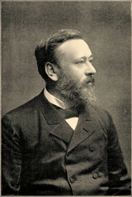 Photo of David Adolph Constant Artz